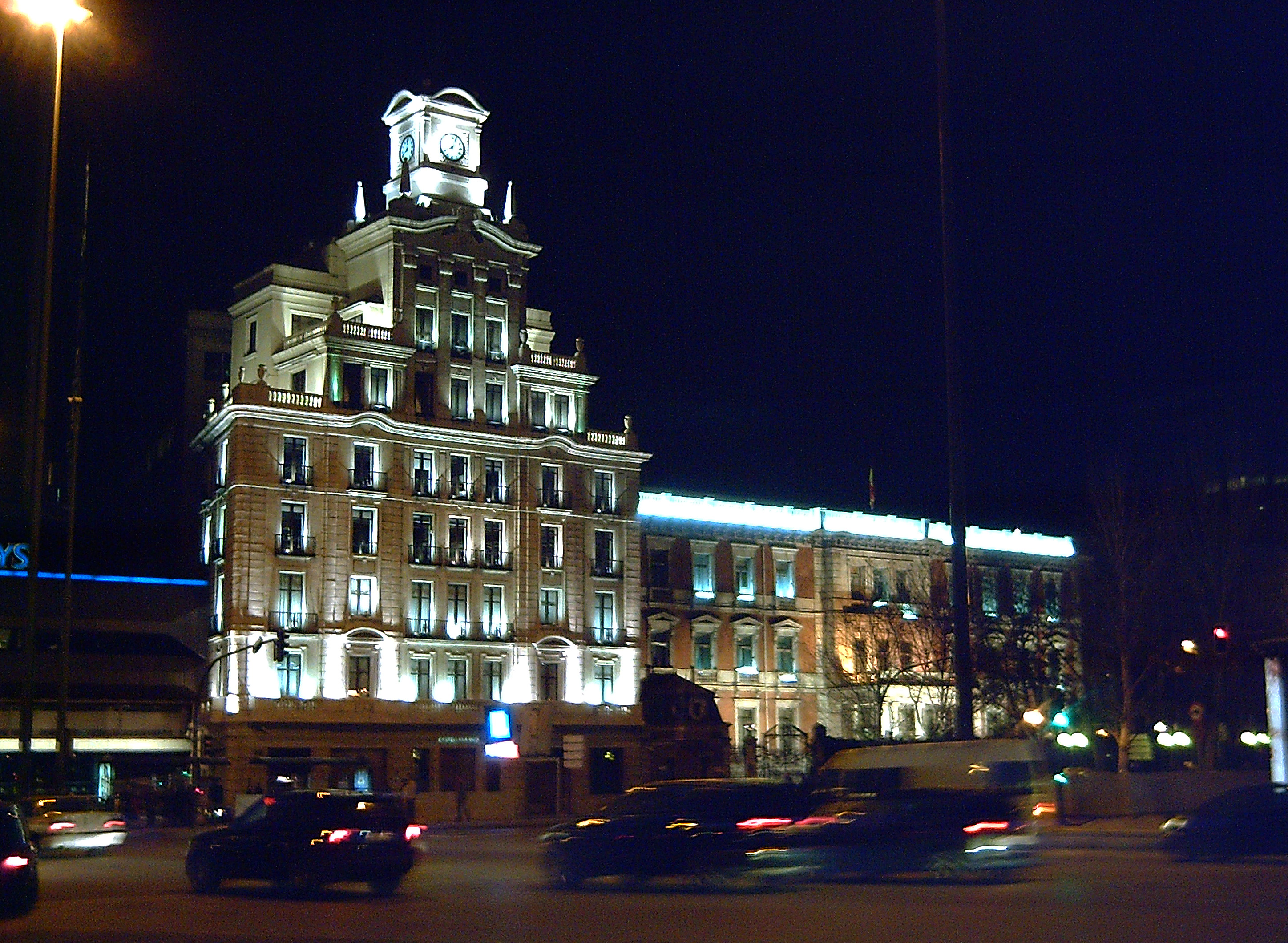 Night view from Paseo de la Castellana (an avenue) in Madrid (Spain). Left: Crédit Agricole IndoSuez Building. At the right, Palacio de Villamejor (current Spanish Ministy of Public Administrations headquarters).